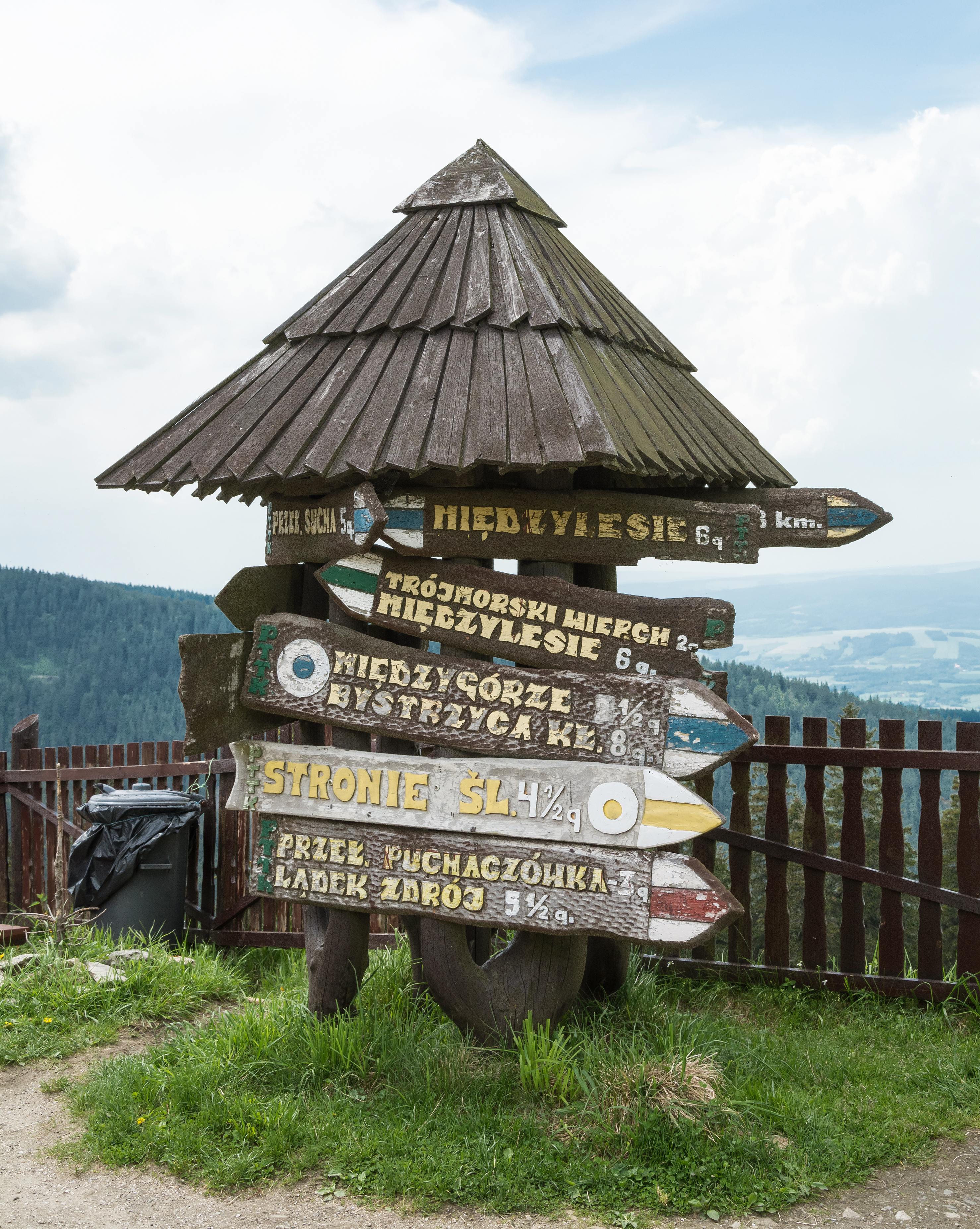 Turistic fingerposts at Na Śnieżniku hostel